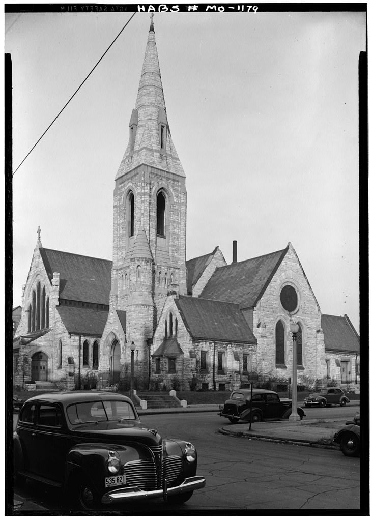 View from southwest of the Church of the Messiah in St. Louis, Missouri. Taken by Lester Jones for the Historic American Buildings Survey (HABS) in 1940.